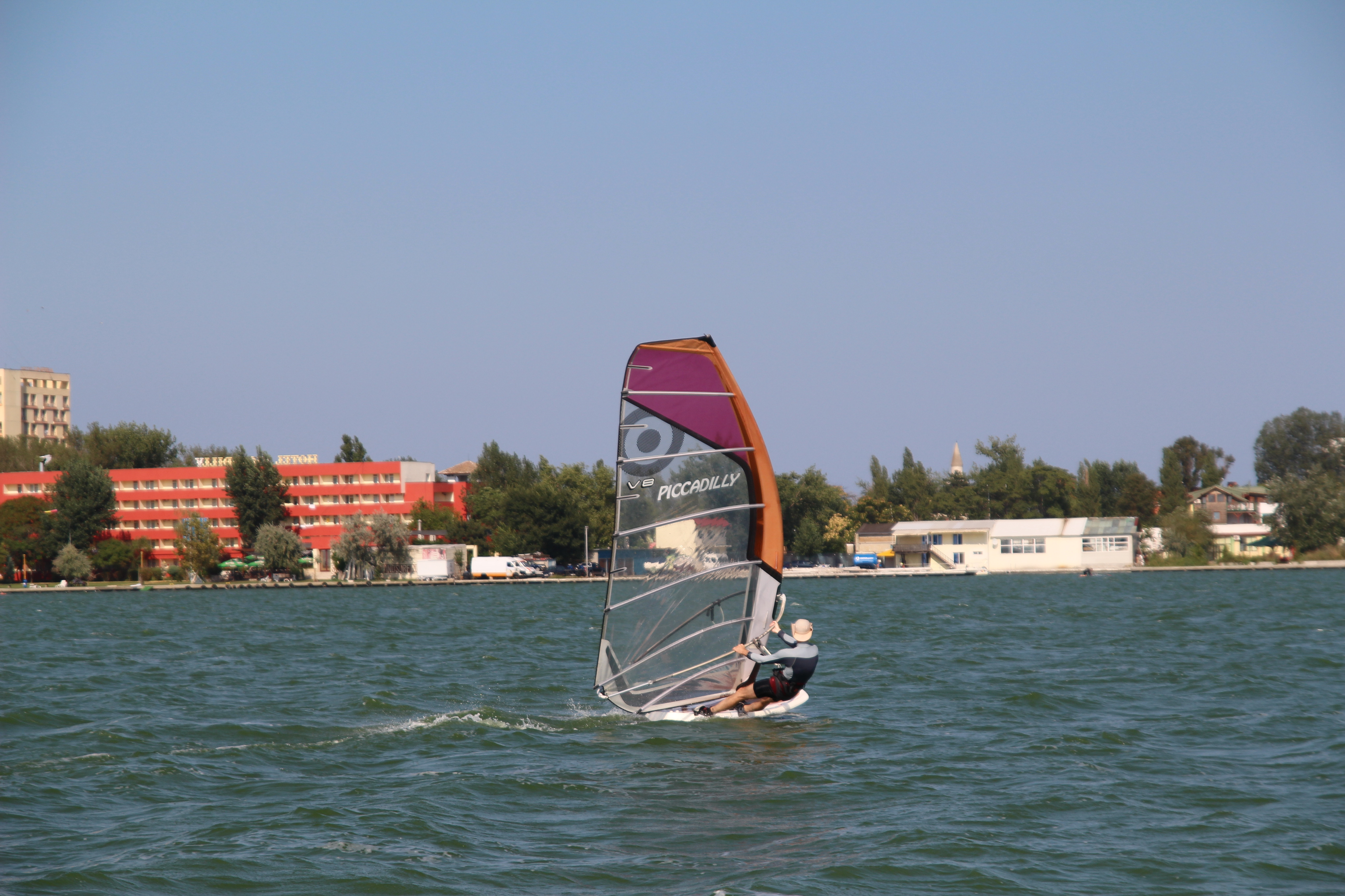 windsurfing school